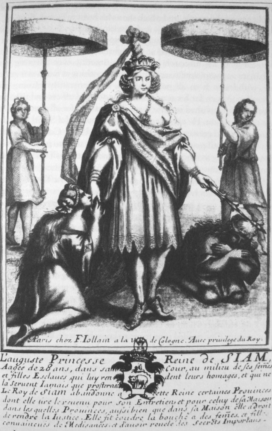 Queen Kromluang Yothathep